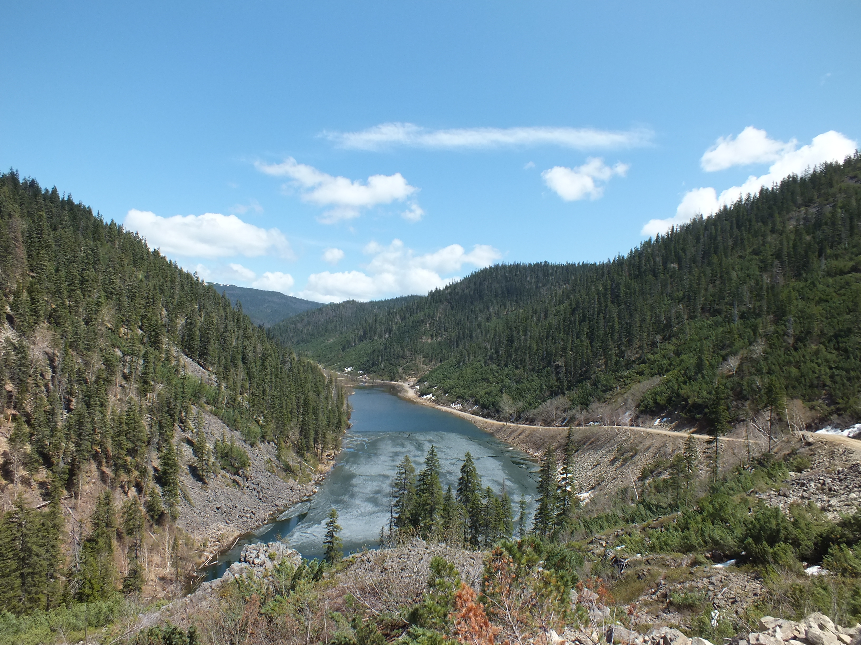 Lake Amut